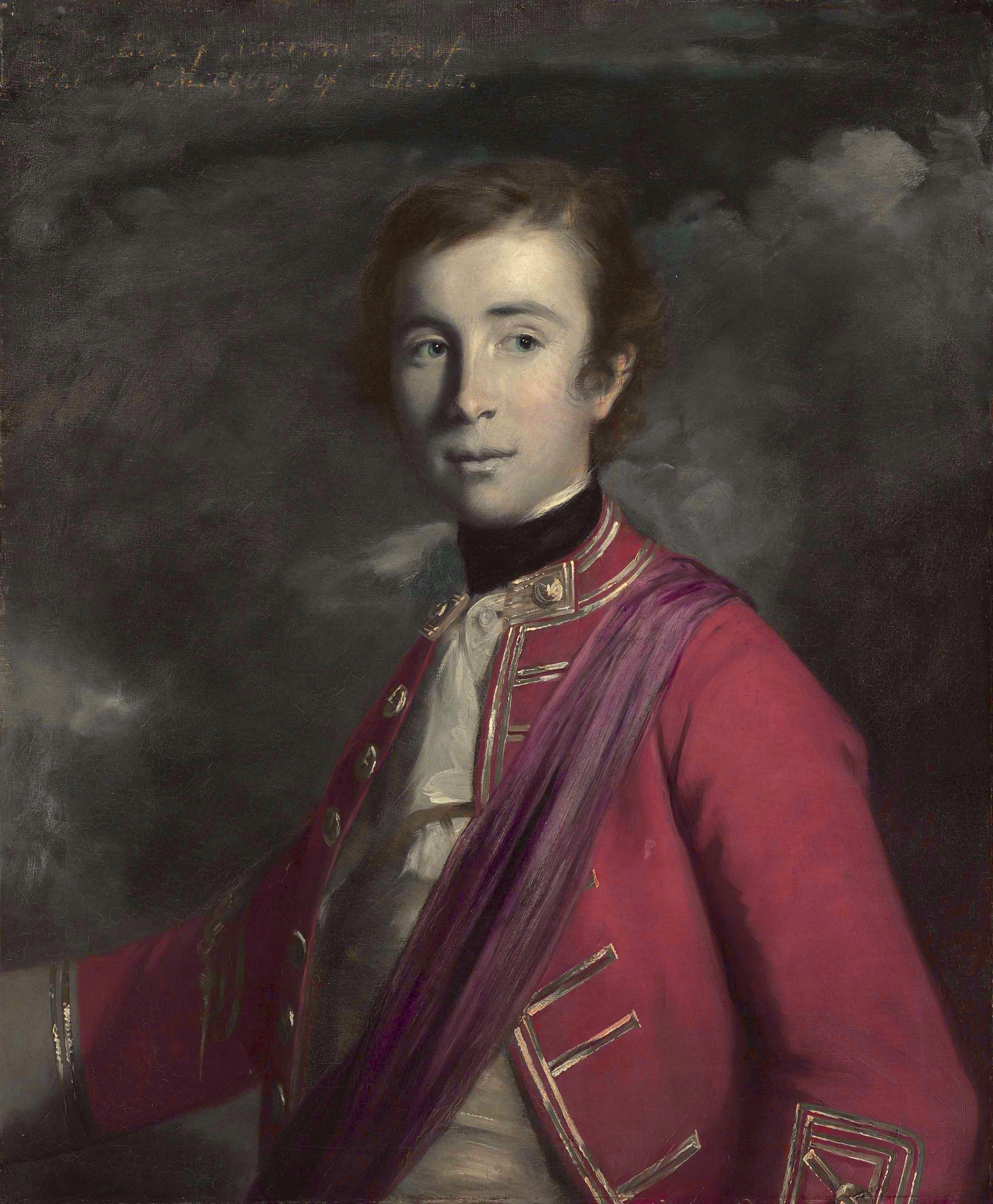 General William John Kerr, 5th Marquess of Lothian (1737-1815), styled Lord Newbottle and later Earl of Ancram